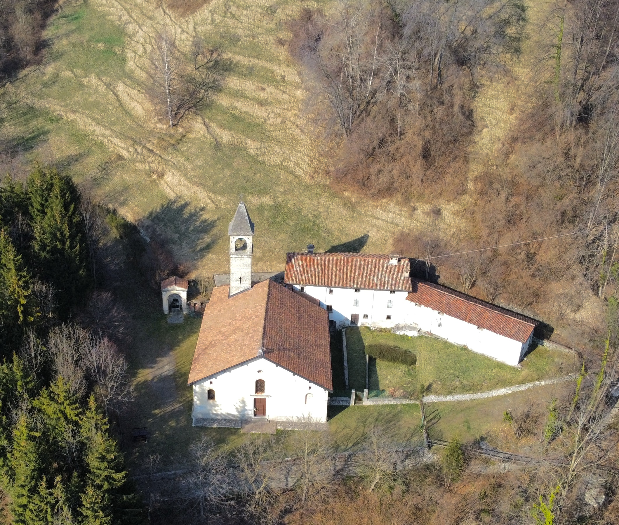 Taleggio, Bergamo, Lombardy, Italy - Santuario Madonna di Salzana, built in 1466